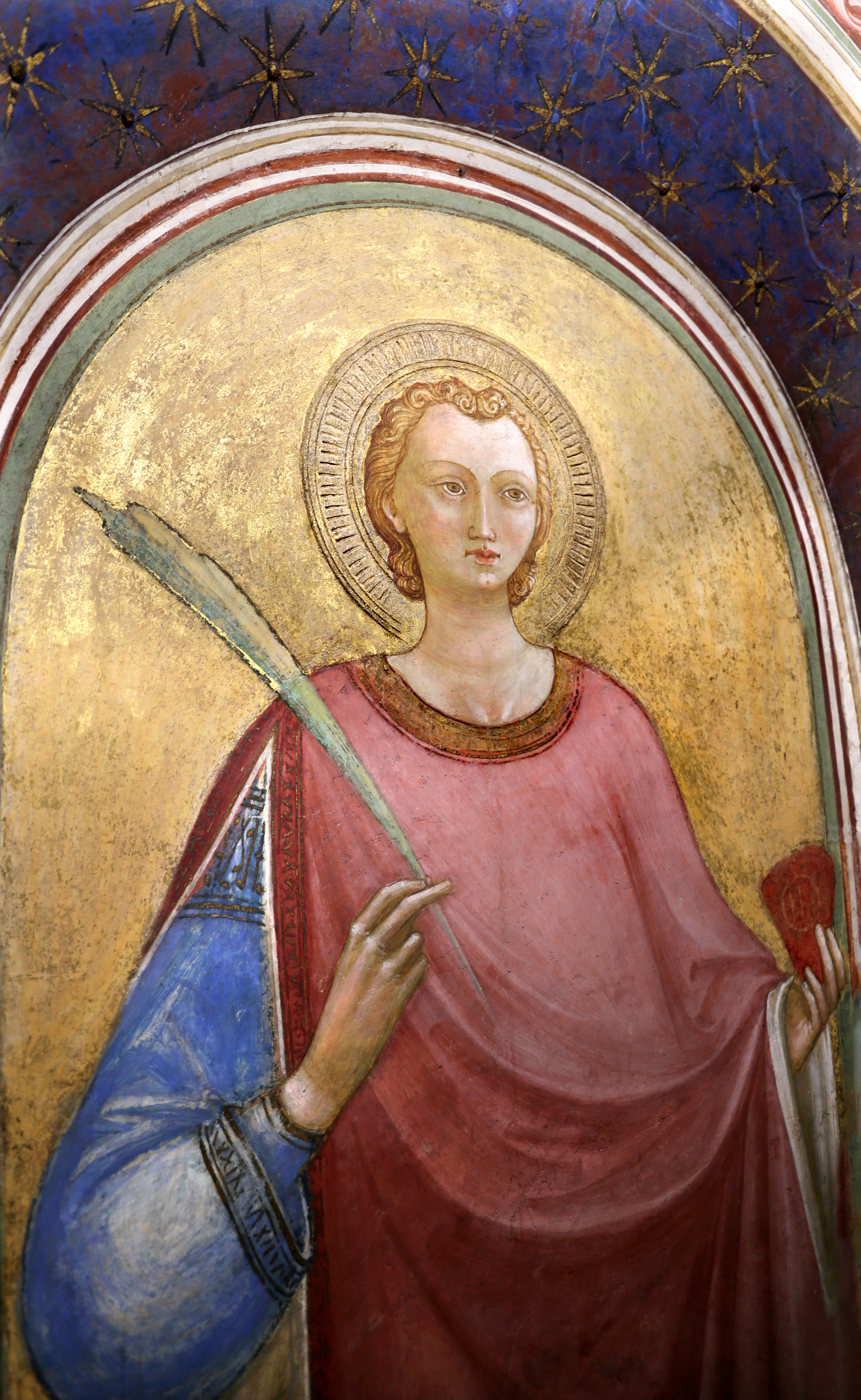 Santissima Annunziata (Florence) - Left nave